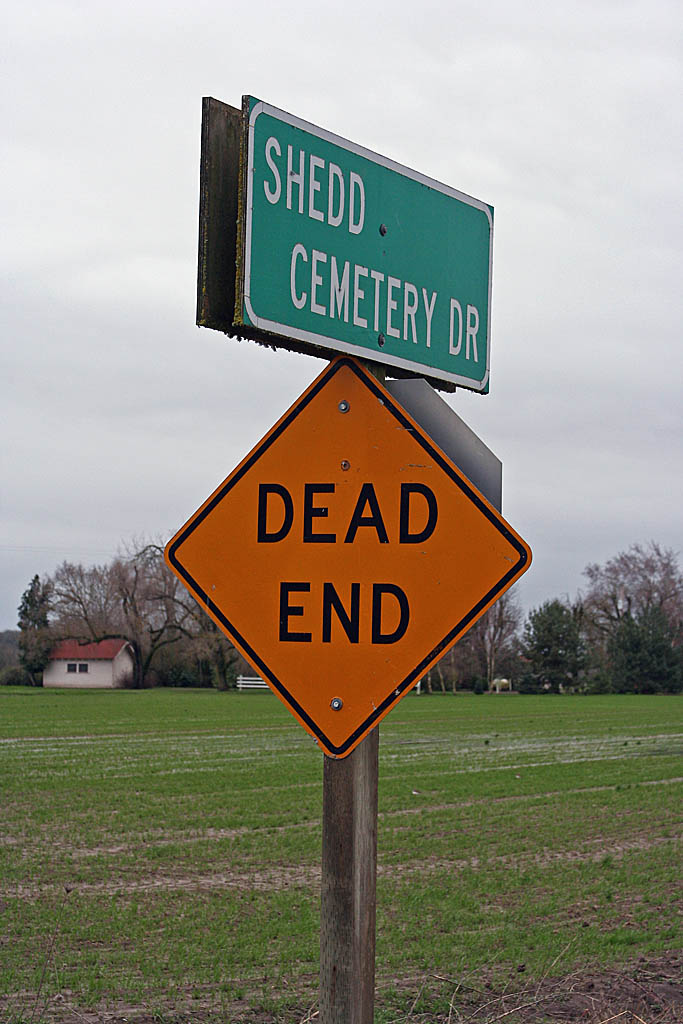 Well, duh! The final road trip.